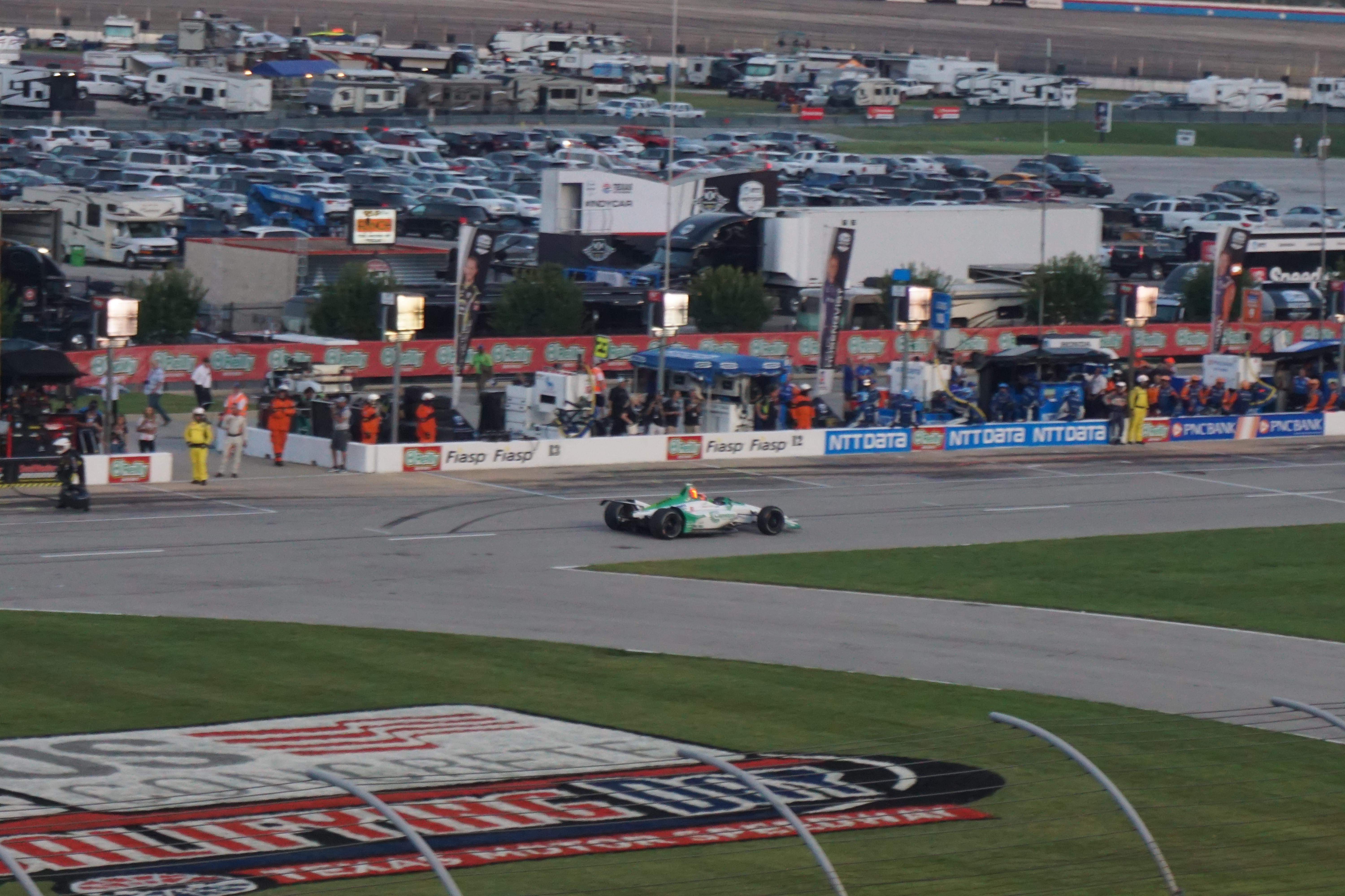 Alexander Rossi making a pit stop during the 2019 DXC Technology 600 at Texas Motor Speedway in Fort Worth, Texas (United States).